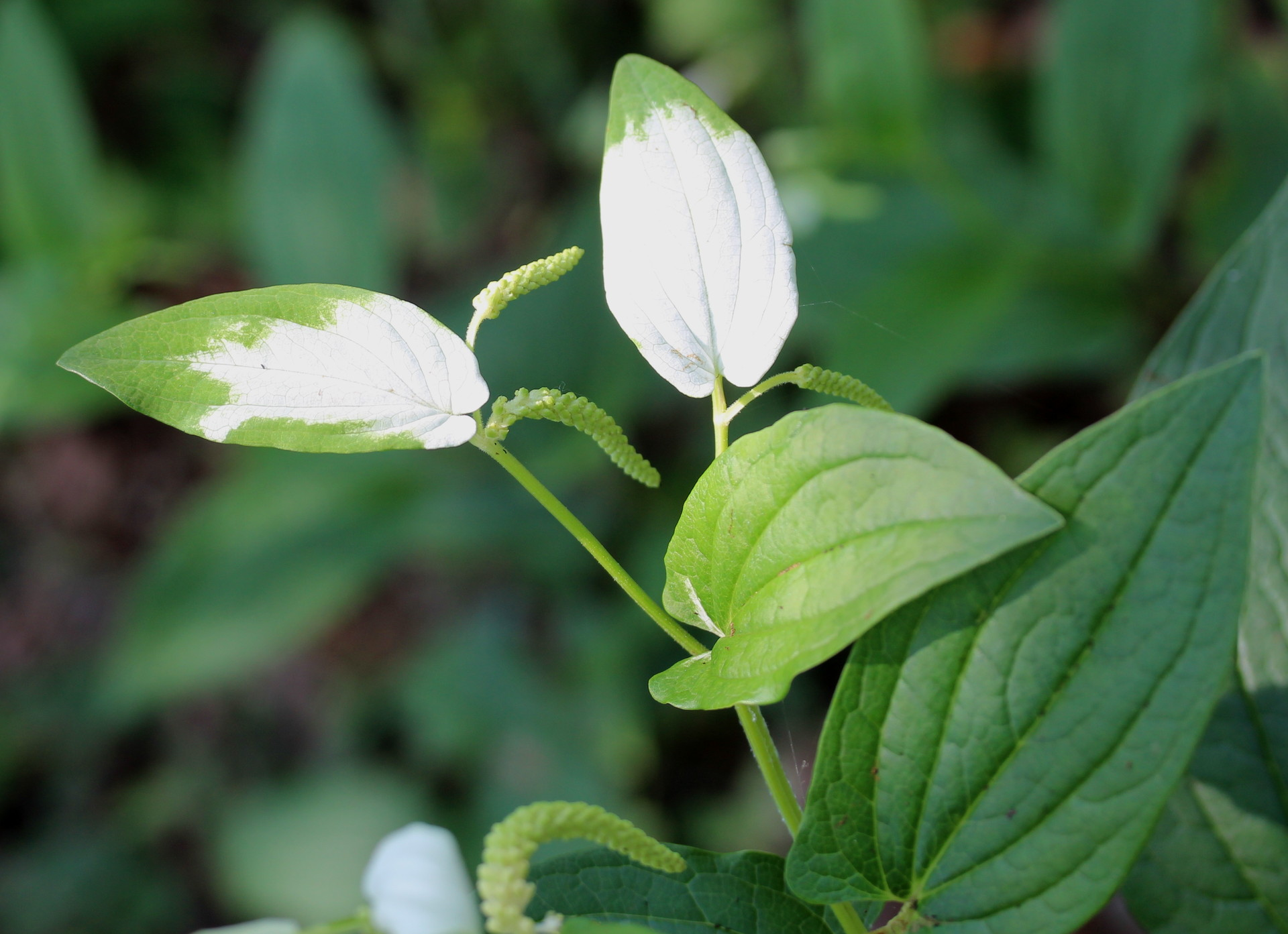 Saururus chinensis